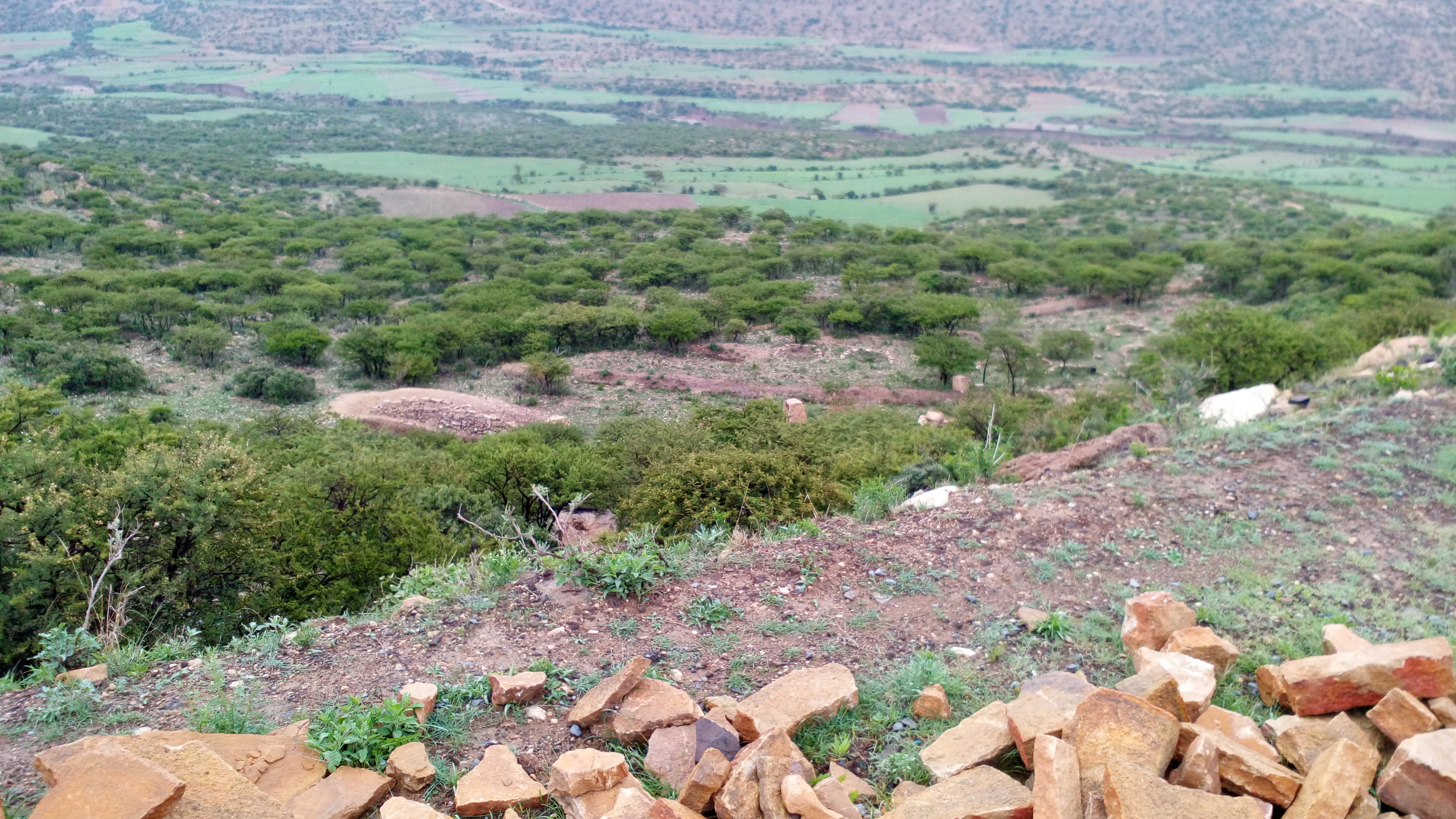 Afedena